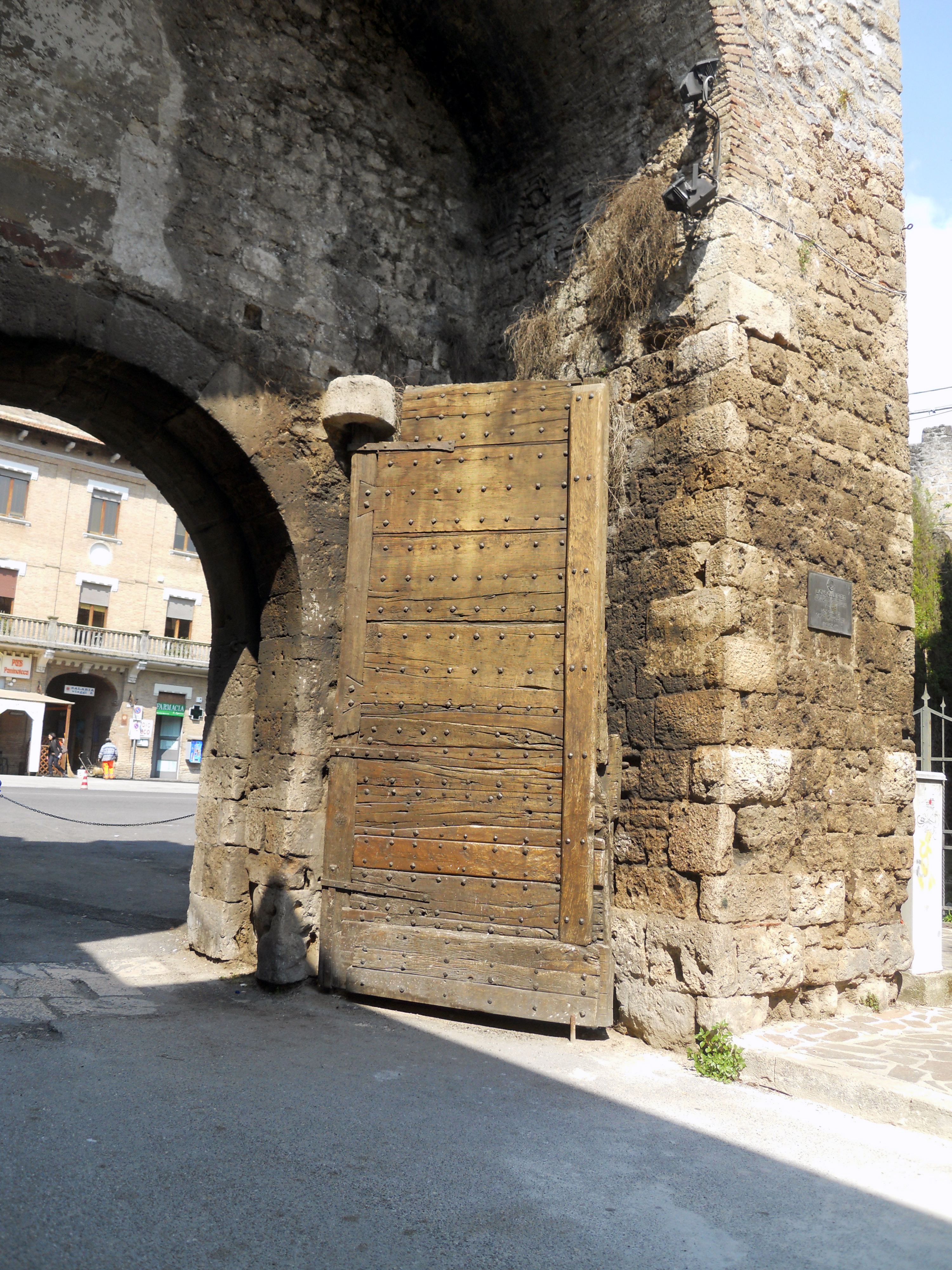 Porta Conca as seen from the inside - Rieti, Italy. Its wooden doors are still the original ones, of the 16th century.